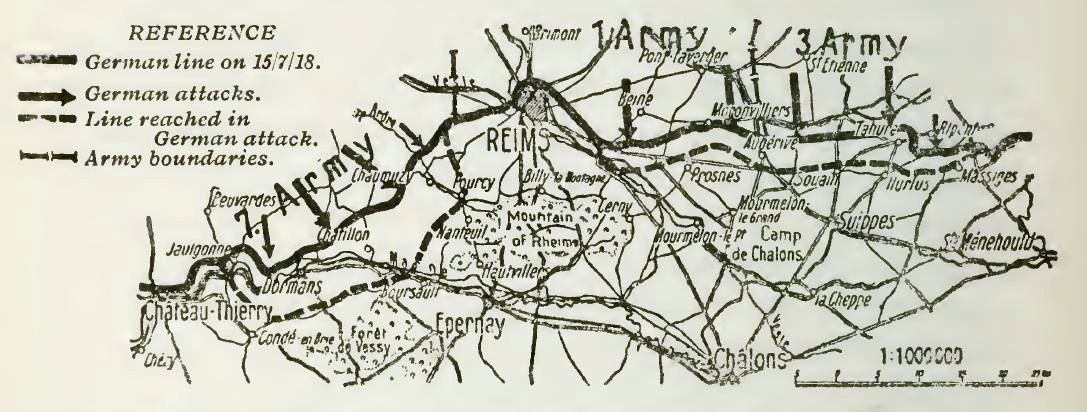 Map of German attacks oon the Marne and Champagne, July 1918